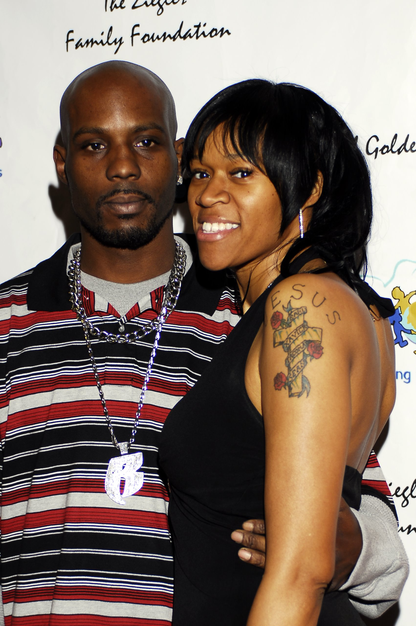 DMX and his woman at the 79th Annual Academy Awards Children Uniting Nations/Billboard afterparty.